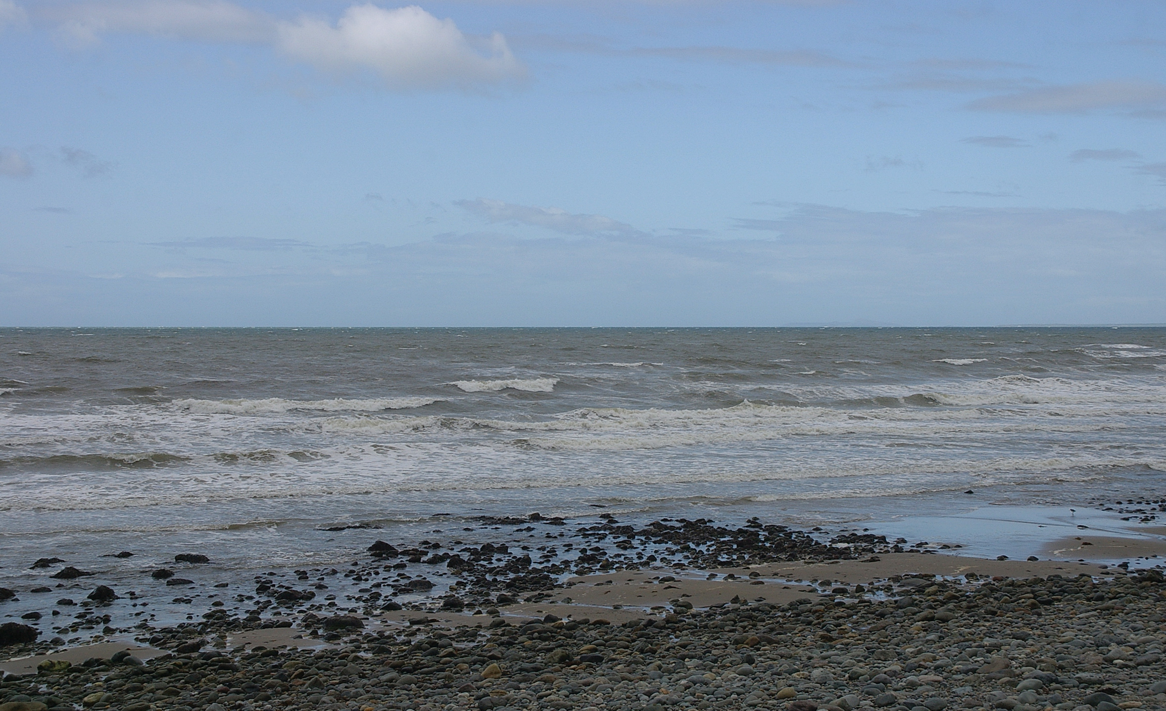 Looking out to sea from Aberdesach.